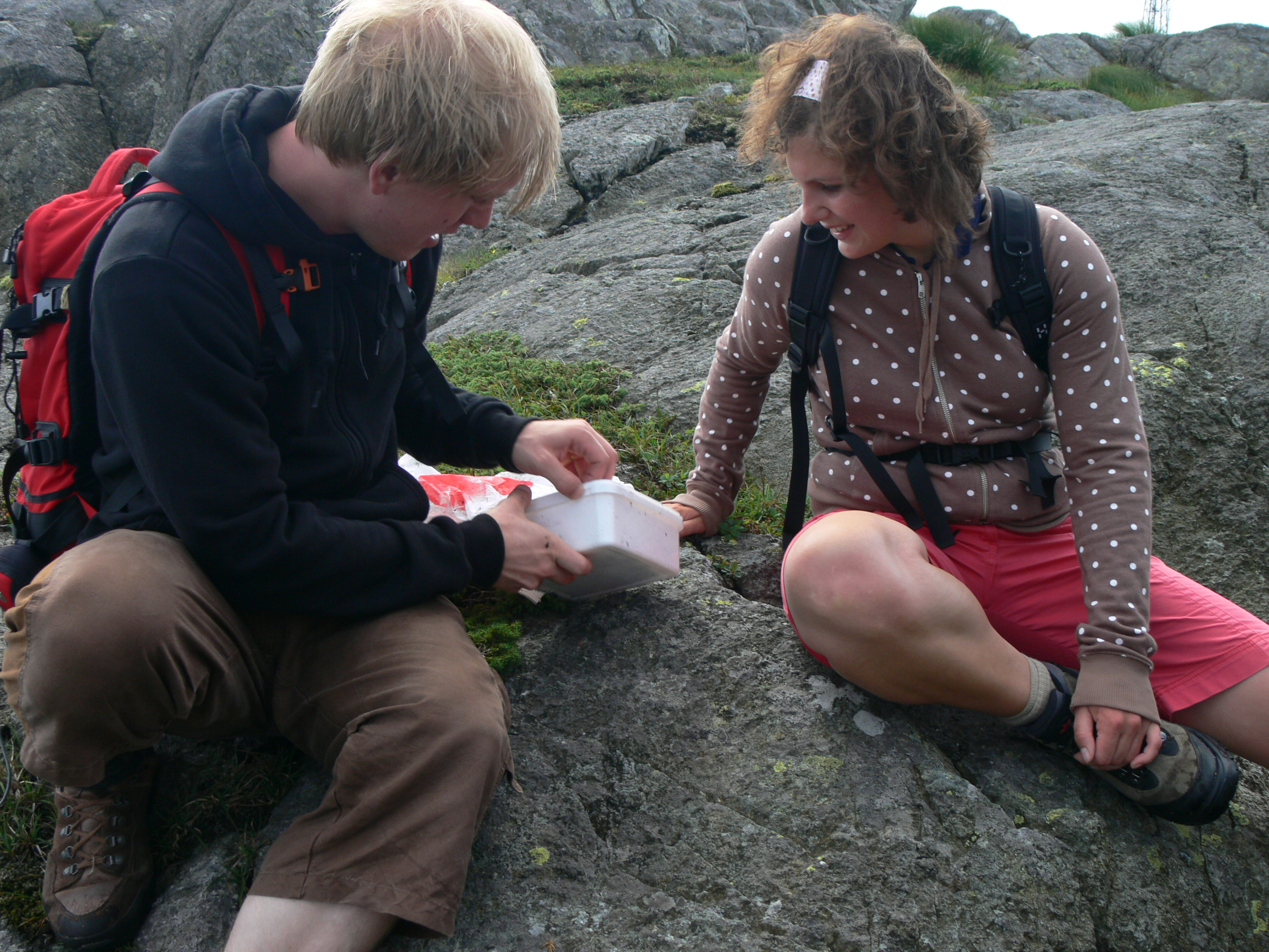 Two geocachers with a geocache they have found